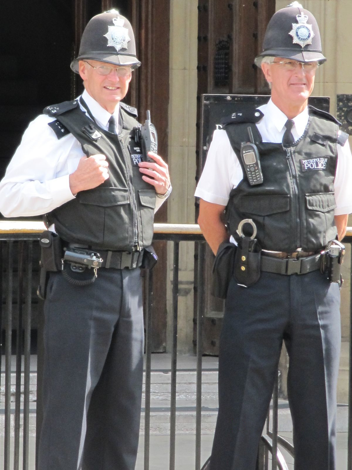 Metropolitan Police